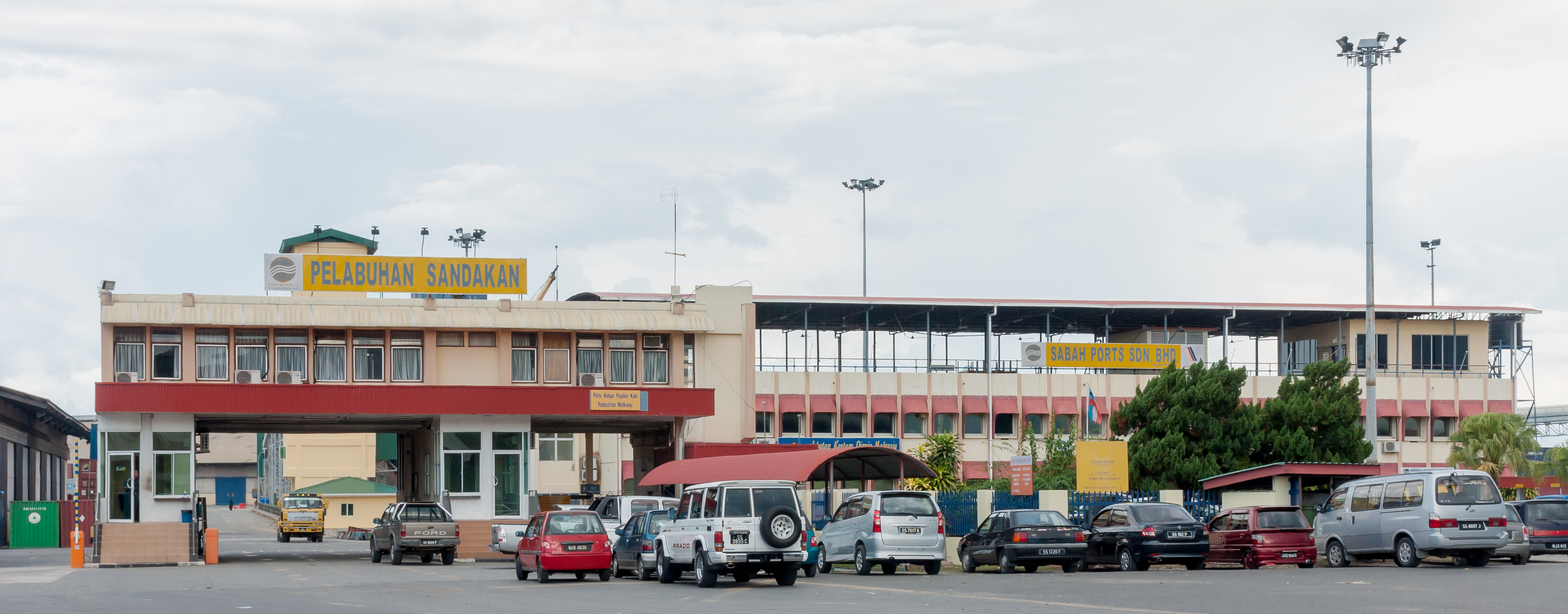 Sandakan, Sabah: Pelabuhan Sandakan (Sandakan Port), operated by Sabah Ports Sdn. Bhd